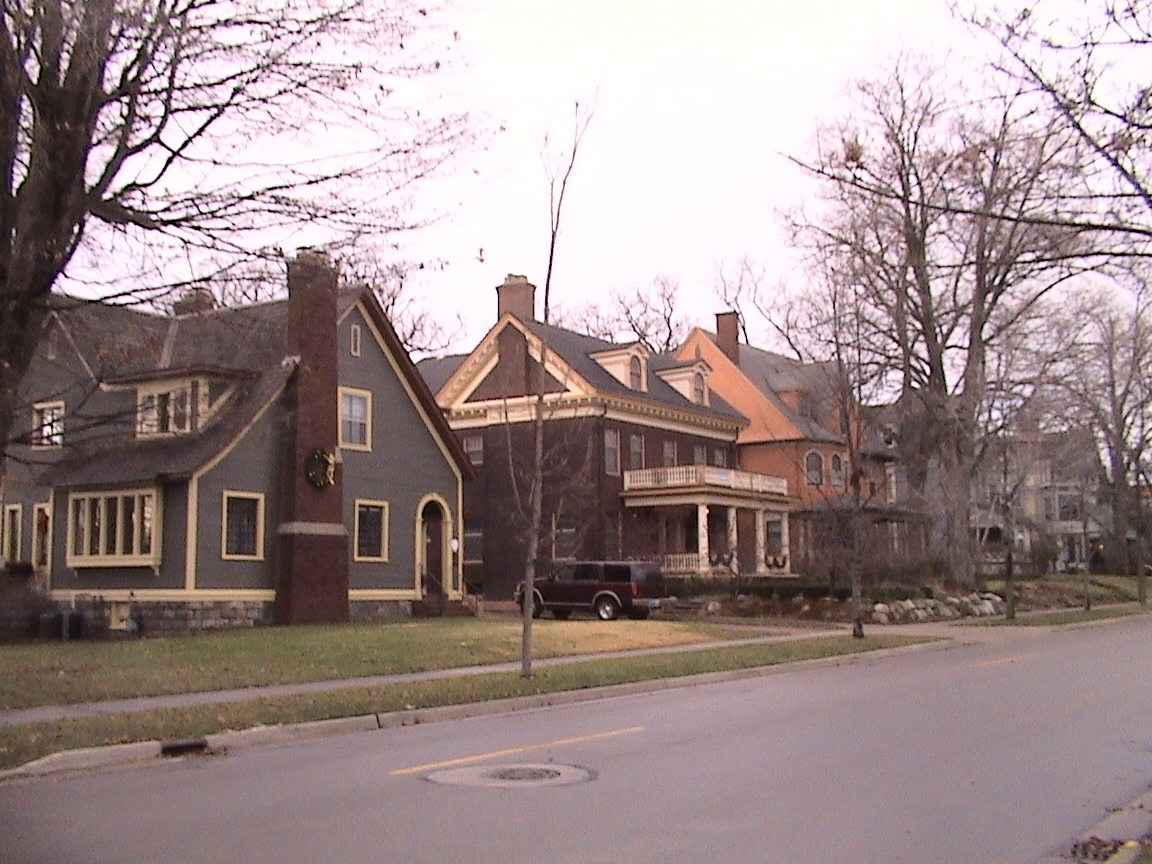 The Heritage Hill Neighborhood in Grand Rapids, Michigan